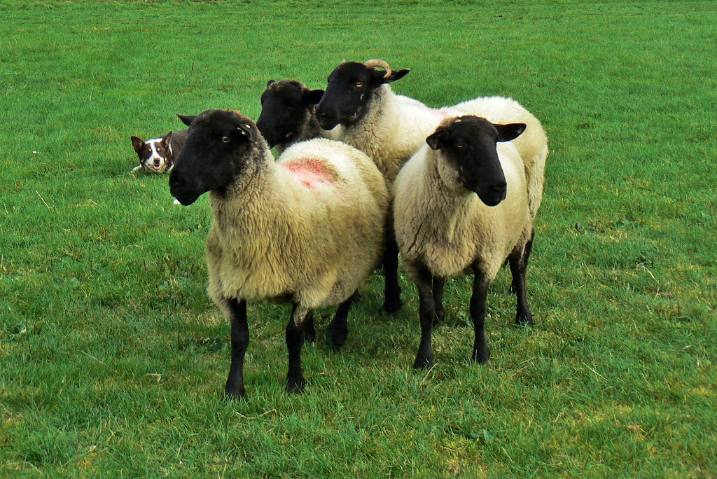 A Border Collie during sheepdog trials at the Ballingeary Show in County Cork, Ireland.which way?